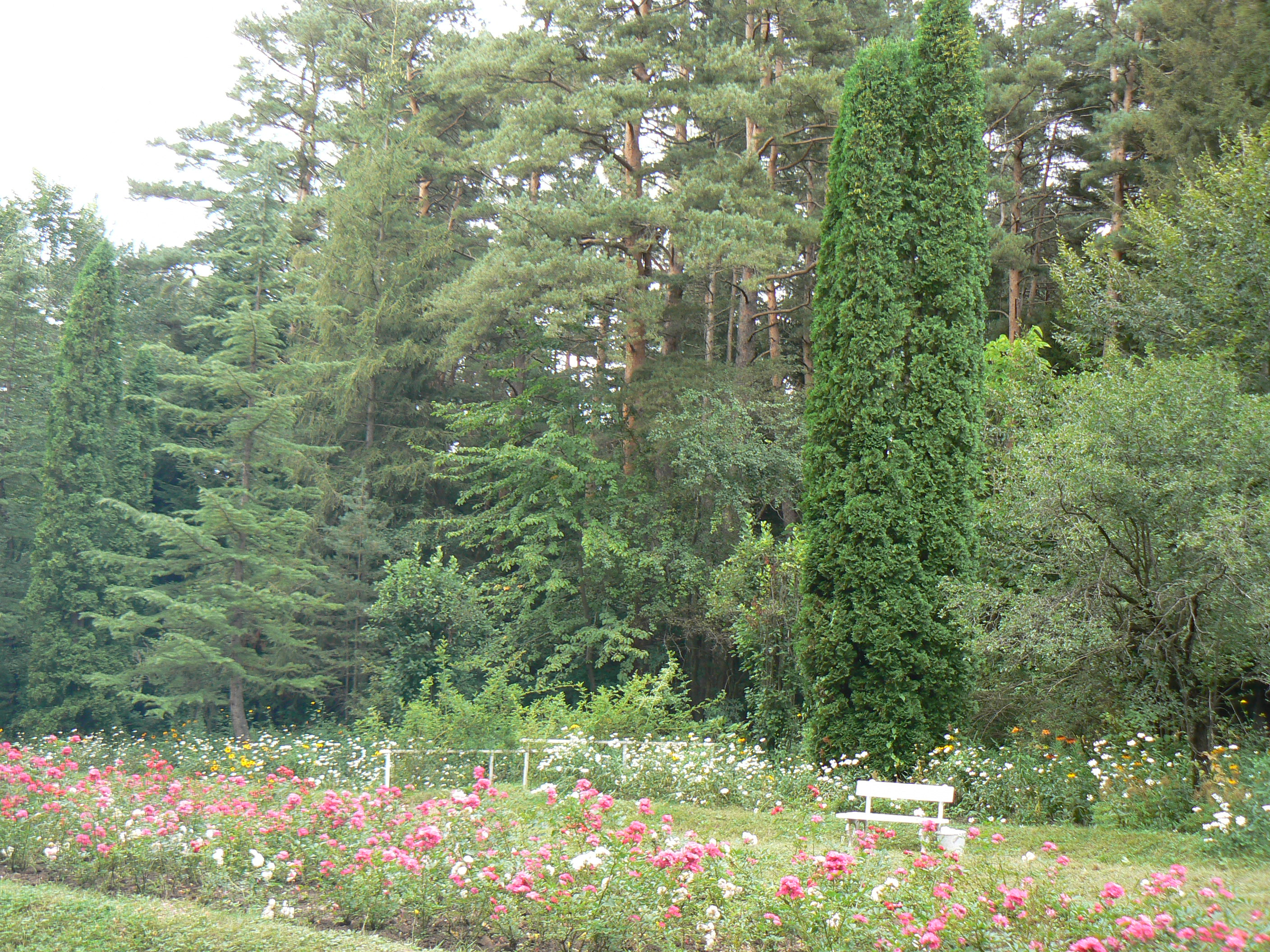 Inside Stepanavan Dendropark, Armenia